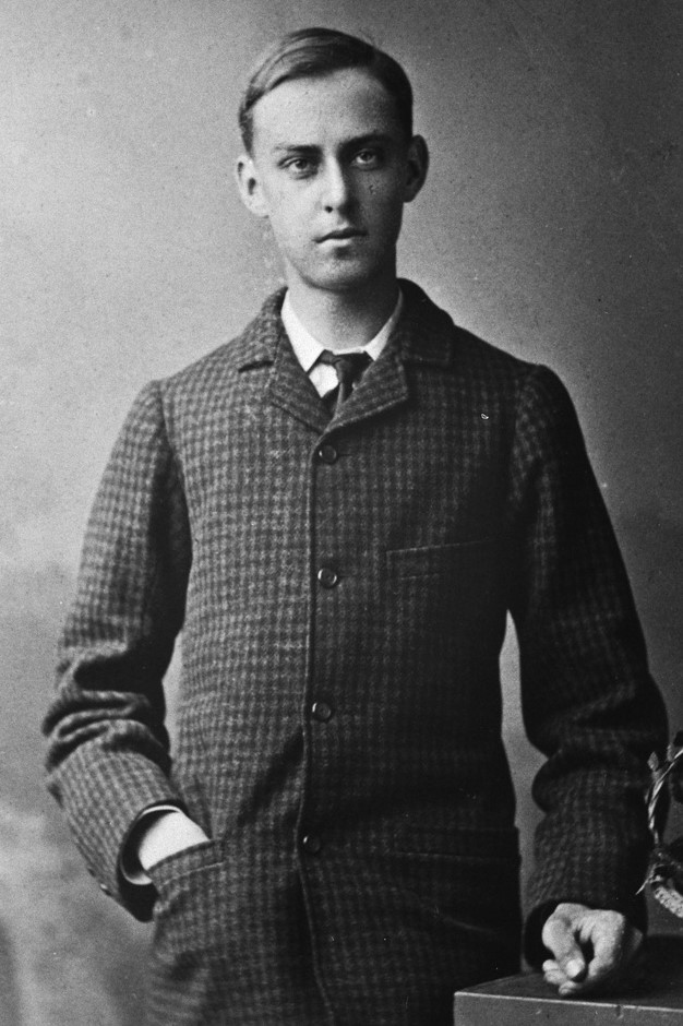 Portrait of George John Robert Murray.